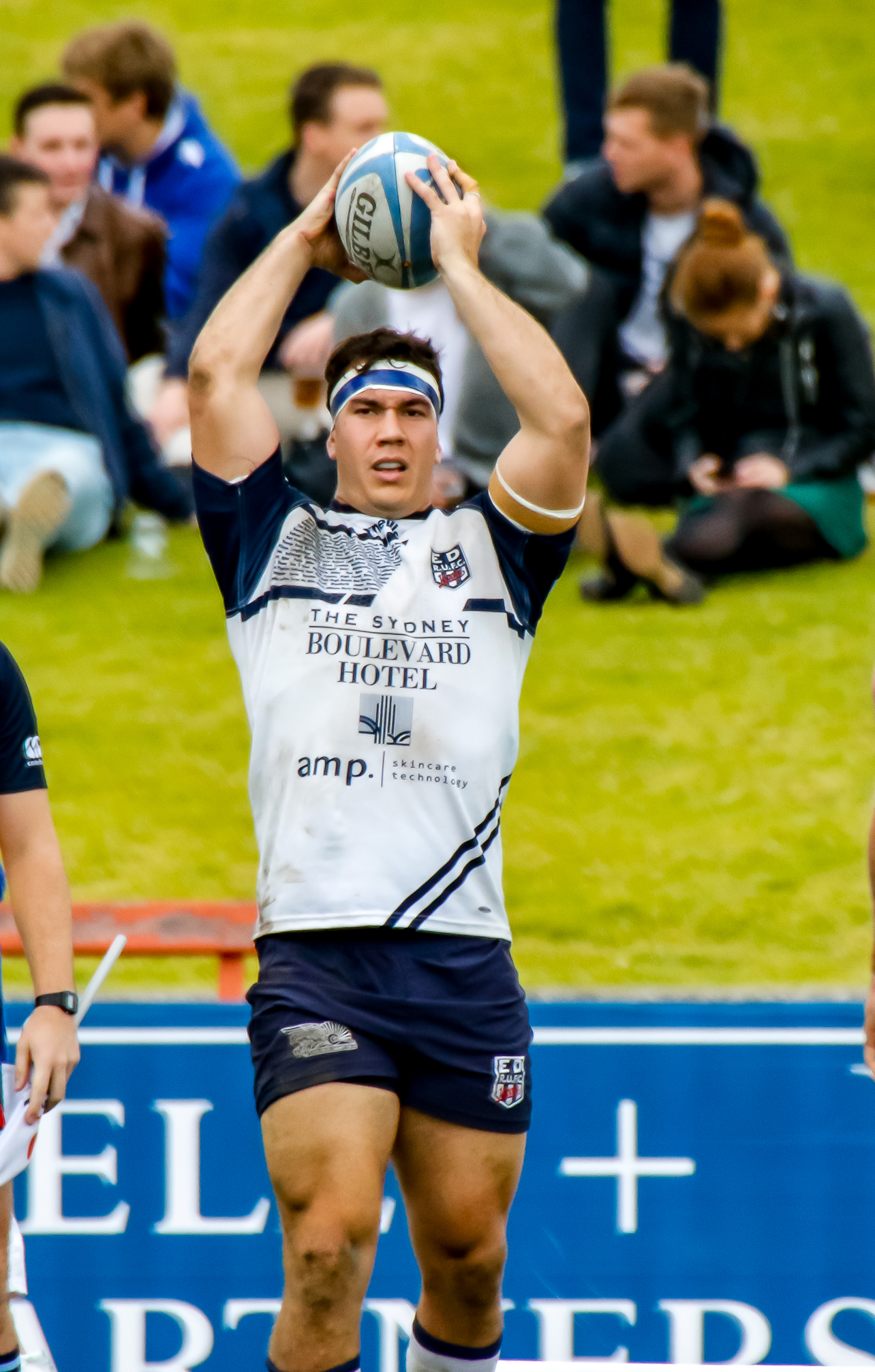 Ed Craig playing hooker for Eastwood District Rugby Union Football Club (credit - Serge Gonzalez)